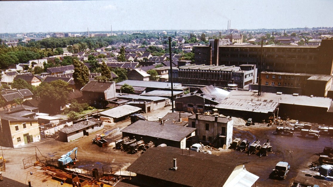 Asphalt Road Construction Company (formerly Bihn factory) site XIX. Ulloi Road 202 (Red Army route 66)